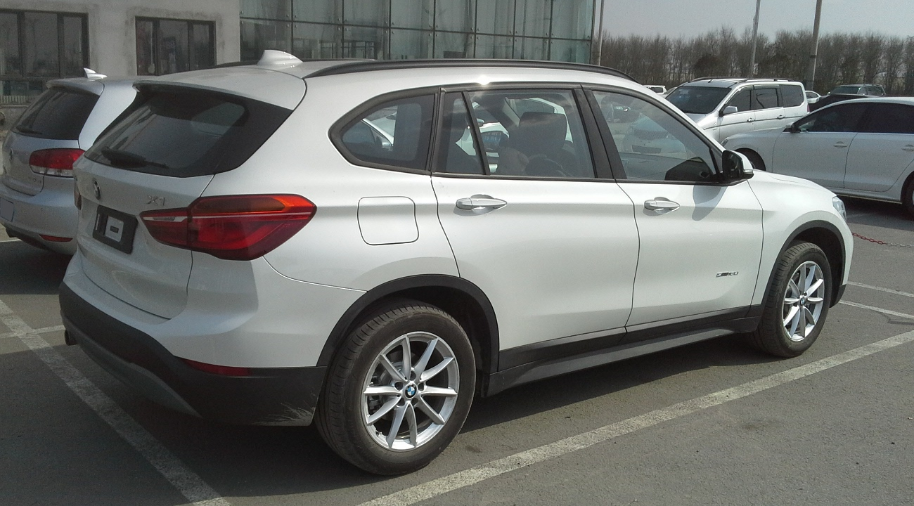 BMW X1 F49 Li photographed in Harbin, Heilongjiang province, China.